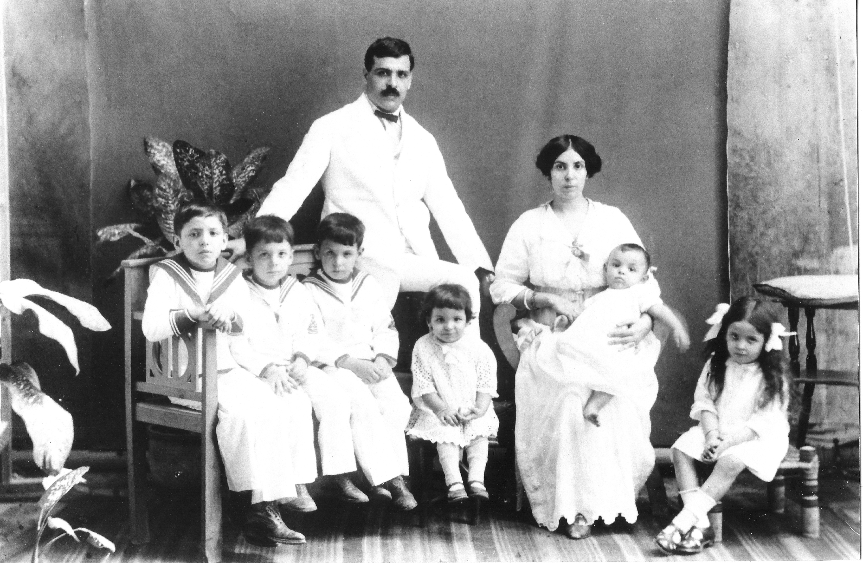 Portuguese diplomat Aristides de Sousa Mendes shown with his wife Angelina and their six children